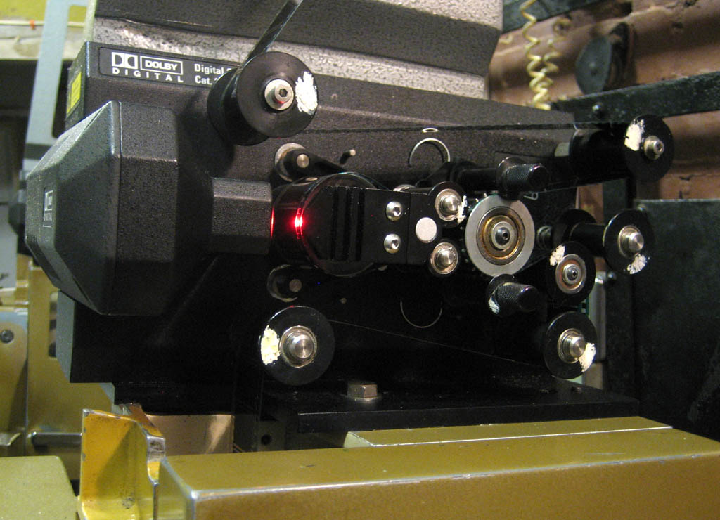 Dolby Digital track reader mounted on a Kalee model 20 projector.